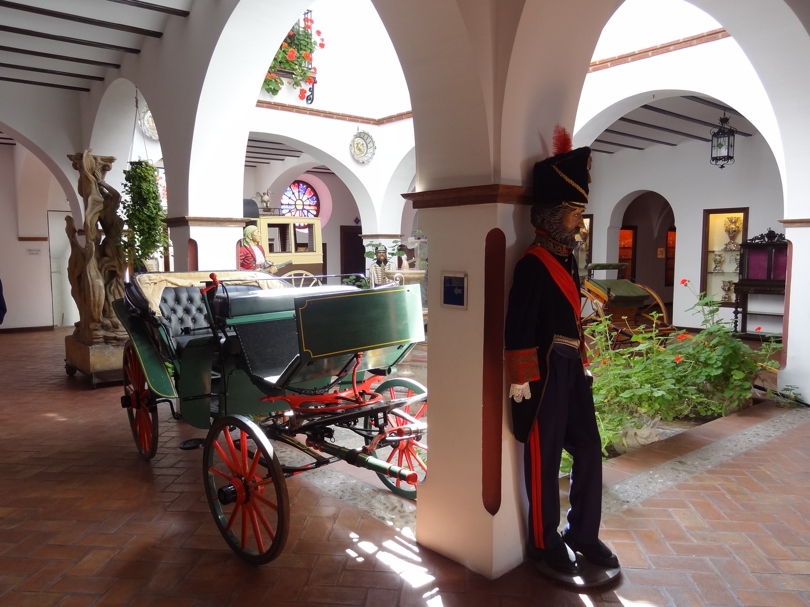 Lara Museum, Ronda in Spain, 2012-05.